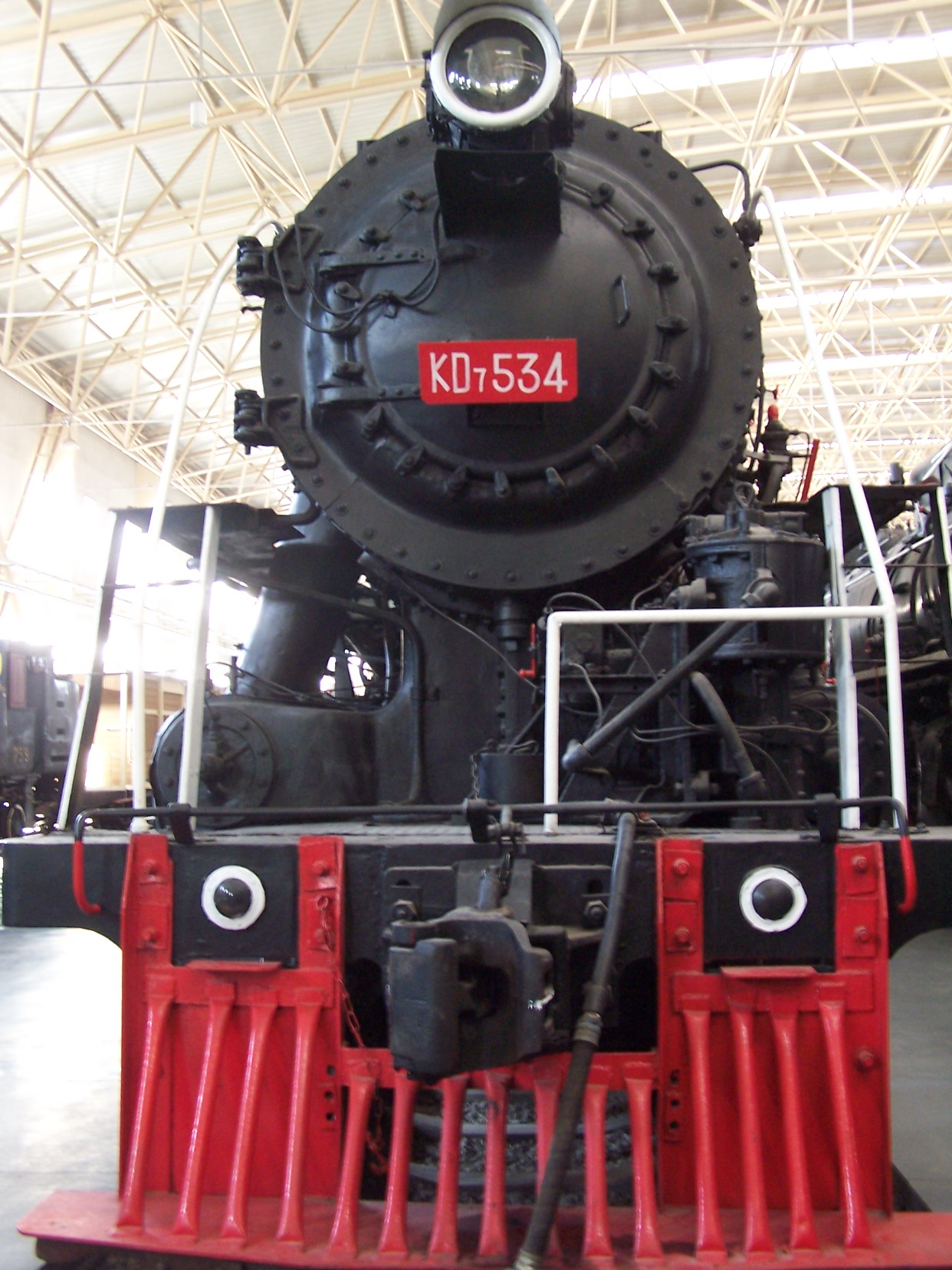 A 2-8-0 steam locomotive manufactured by Baldwin Locomotive Works, Jan 1947 (serial number 73263) displayed in Beijing Railway Museum, China. It belongs to UNRRA's post-war aid to China.